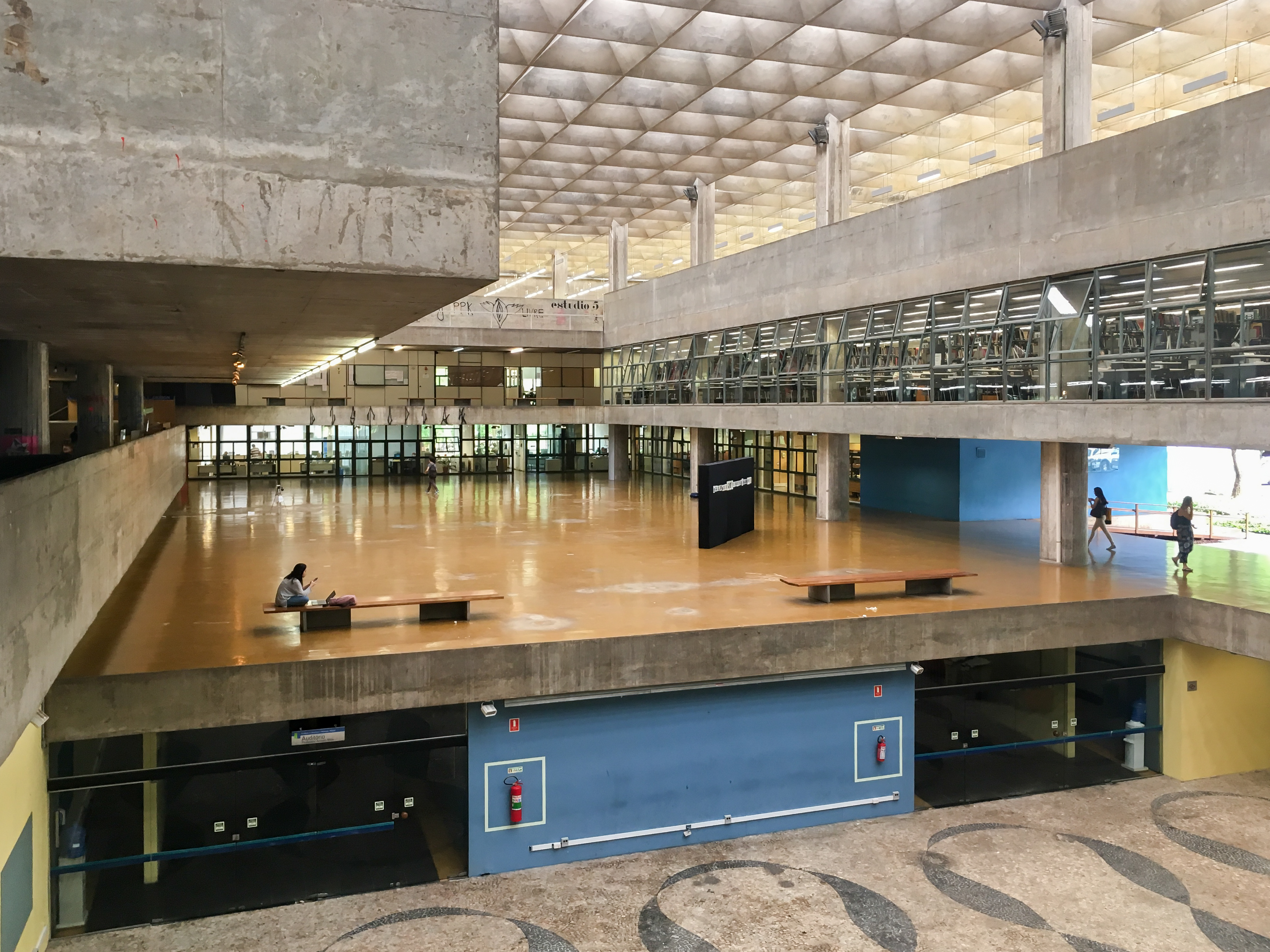 Architecture and Urbanism College, University of São Paulo, São Paulo, Brazil.